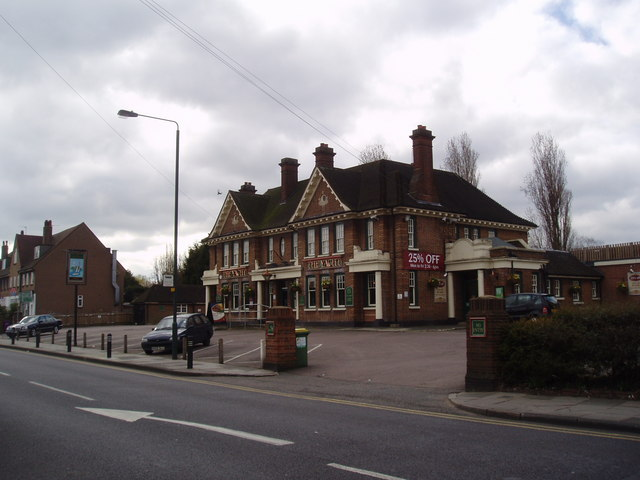 "The Yacht", Long Lane, Bexleyheath. A strange name for this large suburban pub - the nearest navigable water is some miles away.